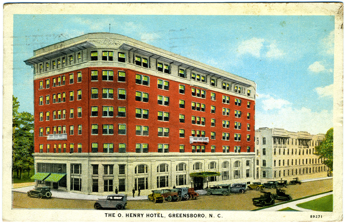 Postcard of the original O. Henry Hotel, Greensboro, N.C